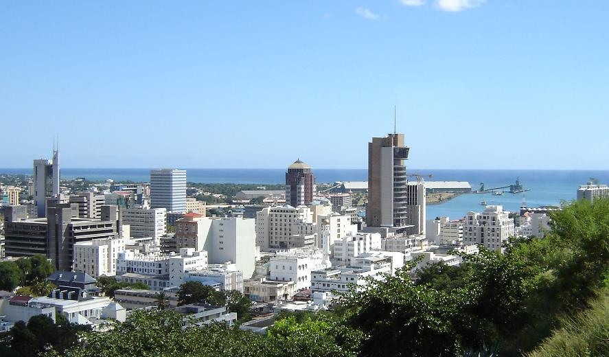 View of Port Louis and harbour looking west from the Citadel.